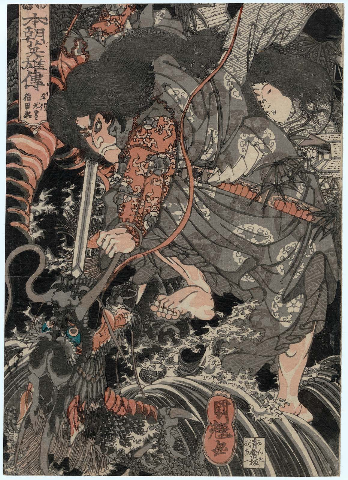 Gozu Tennô (=Susanoo) and Inada-hime, from the series Lives of Heroes of Our Country (Honchô eiyû den)